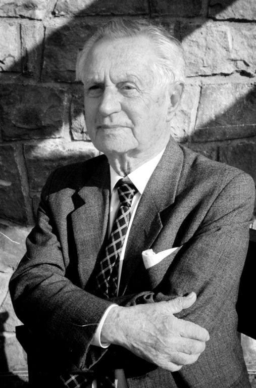 Photo of František Kožík